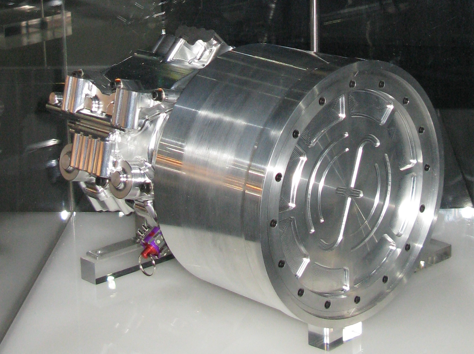 Photo of a Flybrid Systems Kinetic Energy Recovery System for a Formula 1 car. This is a flywheel which stores energy when the car is braked, allowing it to be recycled to accelerate the car later. Allowing the driver to boost the car during key sections of the race (for instance when exiting a corner).